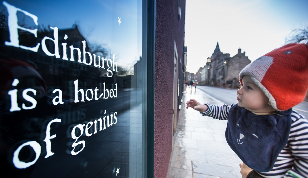 A trail of illuminated quotations on Edinburgh’s Royal Mile celebrating over 500 years of publishing heritage. Photo by Chris Scott.